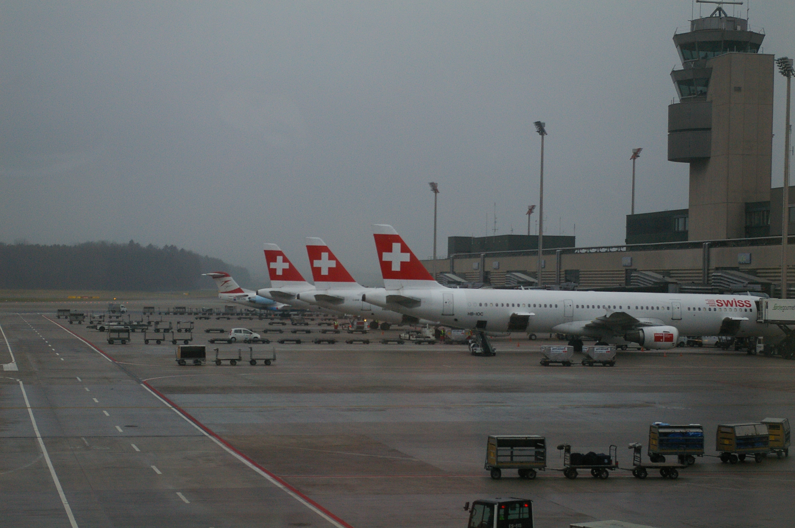 Flights await departure at the airport.